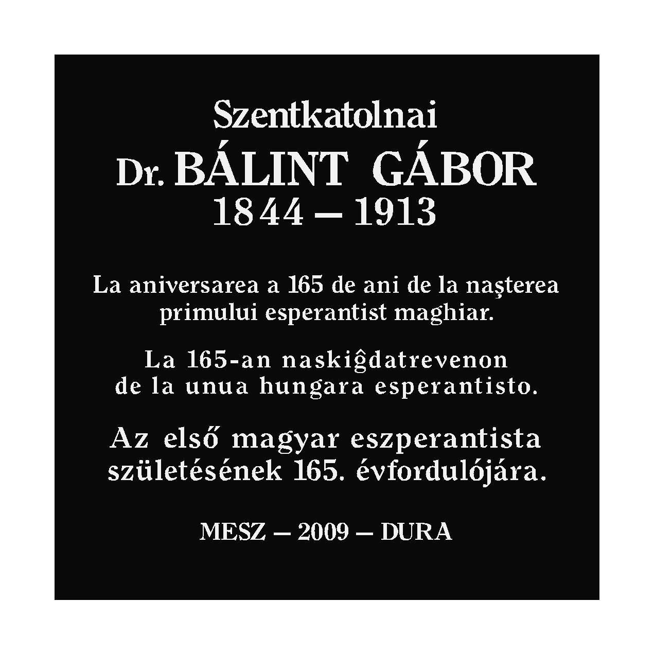 Plaque of Gábor Bálint (2009) in Szentkatolna (Roumania)